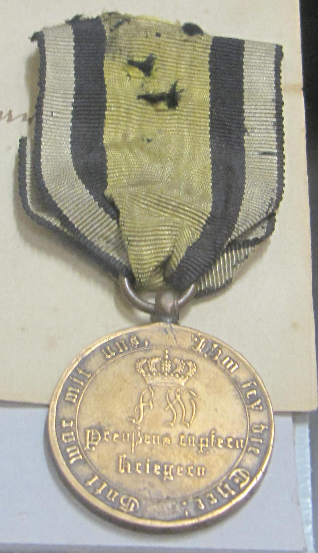 Prussian War Commemorative Medal for 1814